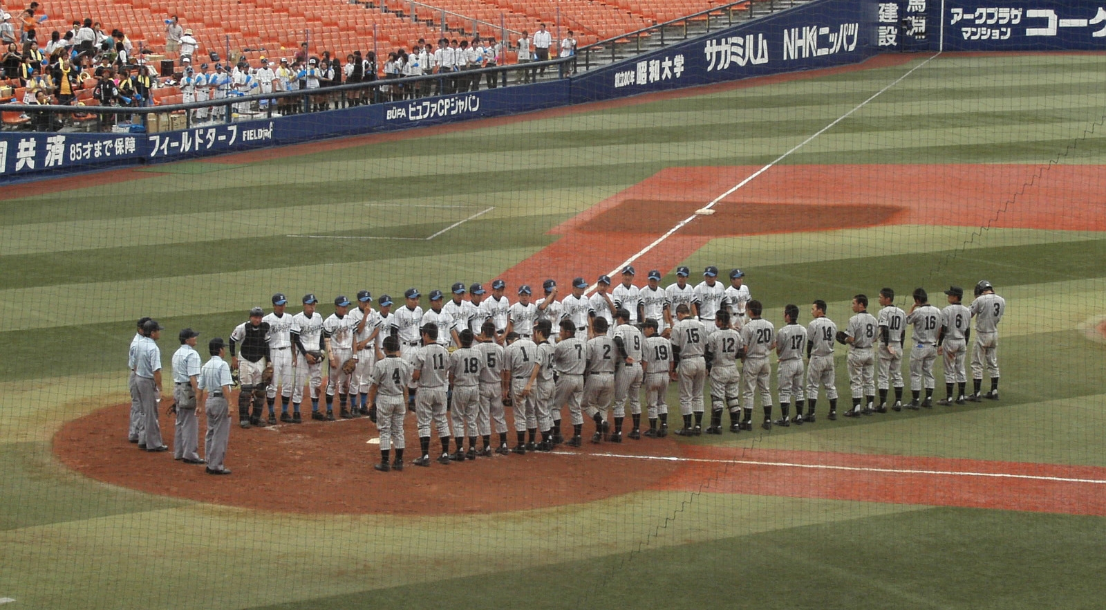 High_school_baseball_in_Yokohama Stadium